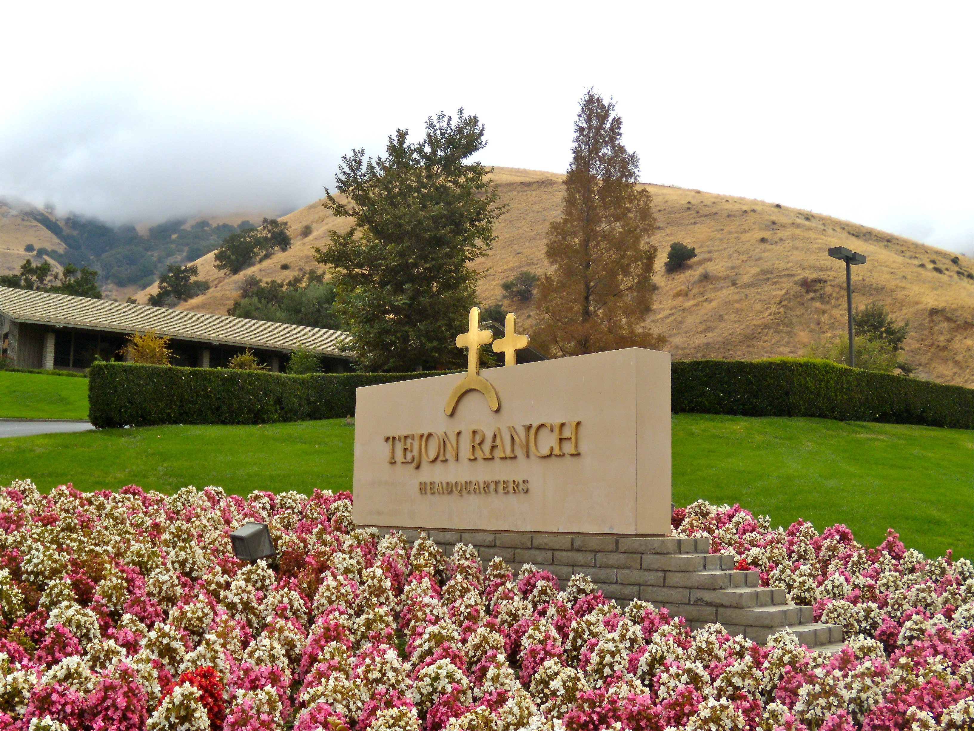 Headquarters sign of the Tejon Ranch Company in Lebec, California, with a building behind the hedge and some of the ranch rising in the mist behind it. This will be the site of Tejon Mountain Village. Photo taken October 4, 2008, by George Garrigues, who is making it available under a CCA license. Note the trademark brand on the sign.